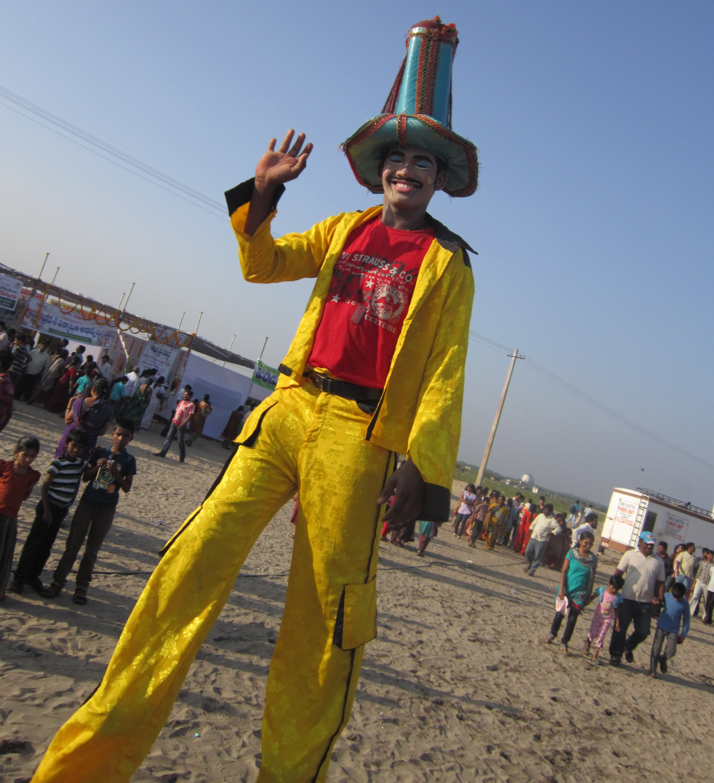 wan walking on leg sticks